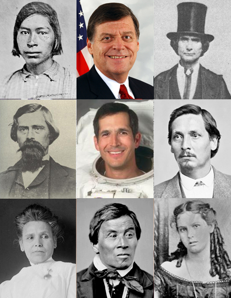 A collage of public domain images of Chickasaw people. Top row: Young Chickasaw man, Tom Cole, Winchester Colbert Middle row: Holmes Colbert, John Herrington, J. D. James Bottom row: Mary Hightower (Shunahoyah), Ashkehenaniew, Annie Guy